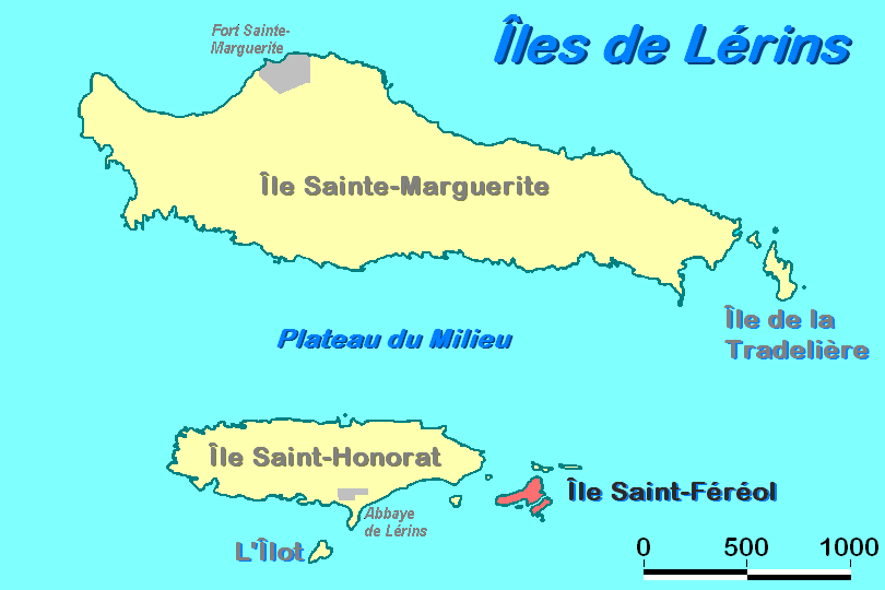 Location of Saint-Féréol within Lérins islands